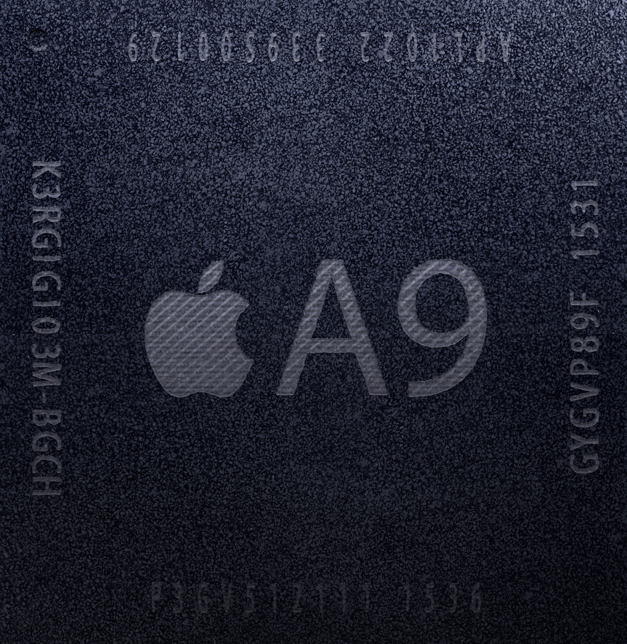 Apple A9 system-on-a-chip. This is the one in the iPhone 6S. This one is the TSMC version.